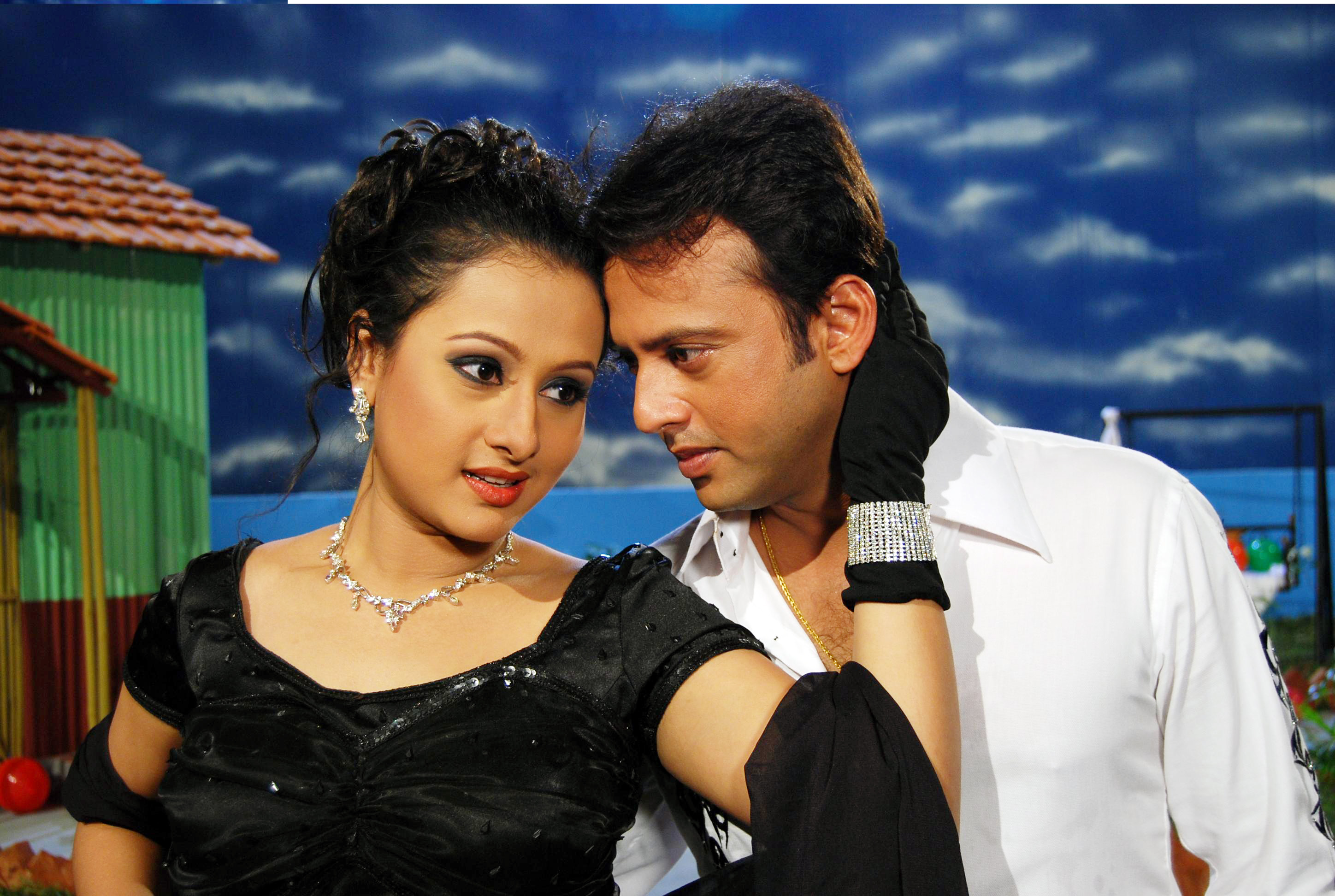 Riaz and Purnima in rehearsal the set of 'Akash Chhoa Bhalobasa' 2007, Dhaka.